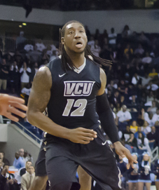 Mo Alie-Cox of VCU